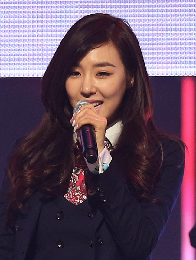 Tiffany at Mcountdown Girl's Generation Comeback Performance CJ E&M Center, Sangam-dong, Mapo-gu, Seoul 2014.03.06.